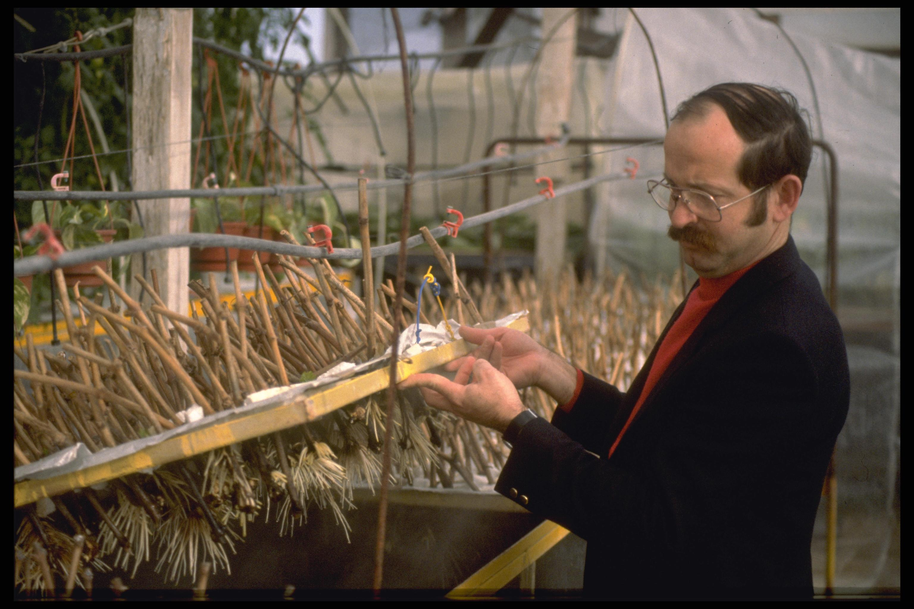 Plants are grown using the aeroponic system at the Satariya settlement. חקלאות וגידולי צמחים בשיטה "איירופוניט", ביישוב סתריה. Photo: Yaakov Saar (1951–) Alternative names SA'AR YA'ACOV; Jacob Saar; Saʻar, YaʻaḳovDescriptionIsraeli photographerDate of birth 1951 Authority control : Q28751896 VIAF: 298161188 NLI: 001394176 creator QS:P170,Q28751896 , 01/11/1981